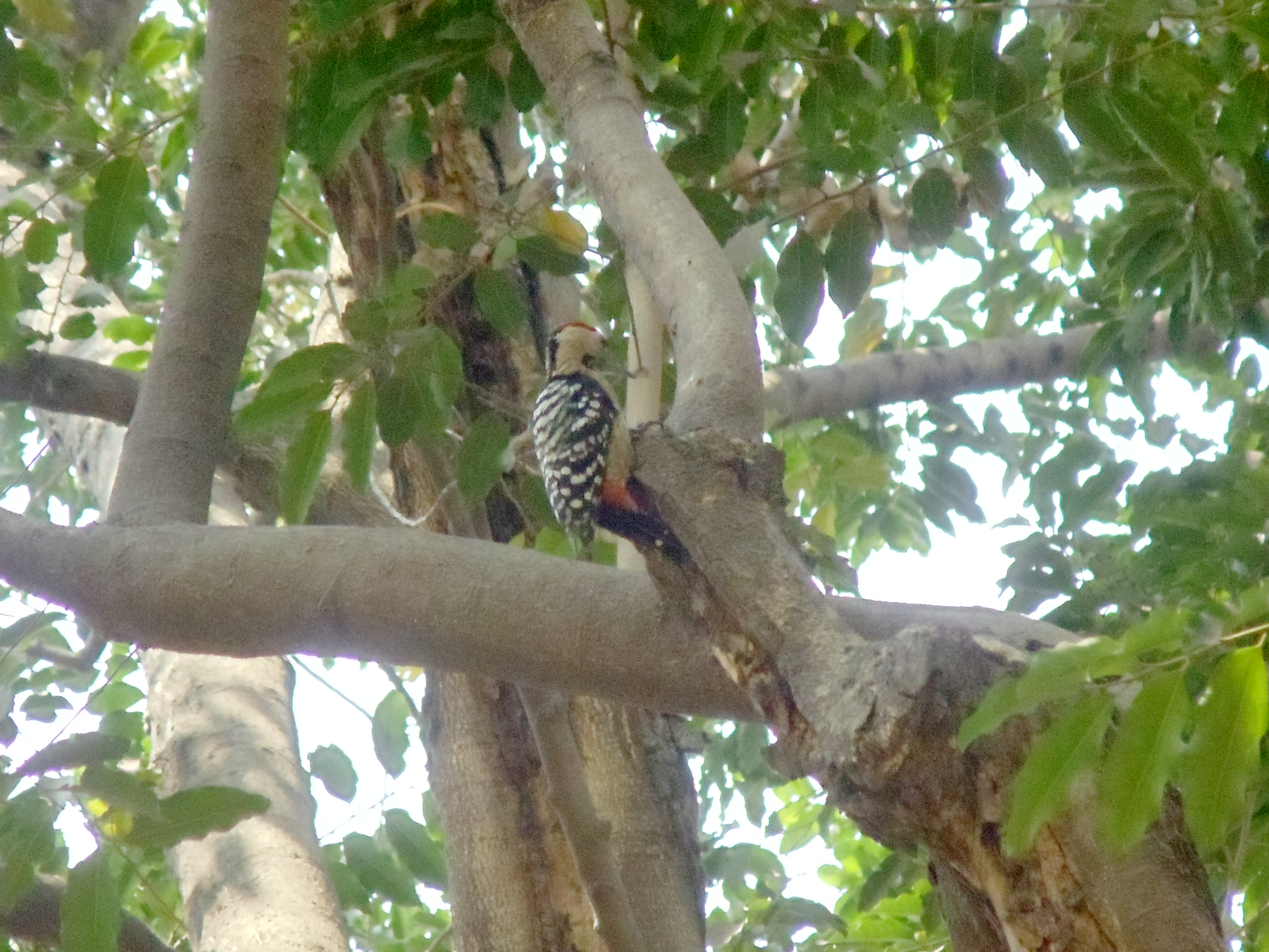 A Rufous-bellied Woodpecker Fulvous-breasted Woodpecker perches on a tree in Notre Dame College, Dhaka,Bangladesh